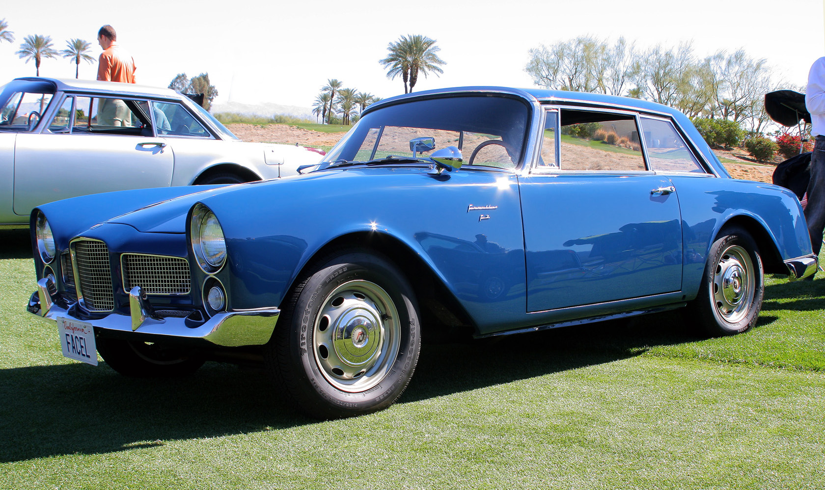 1961 Facel Vega Facellia F2 4-passenger Coupe with improved 4 cylinder engine at 2011 Desert Classic, La Quinta, CA